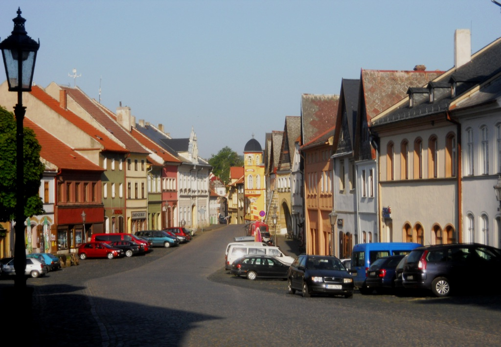 Úštěk, marketplace to the West